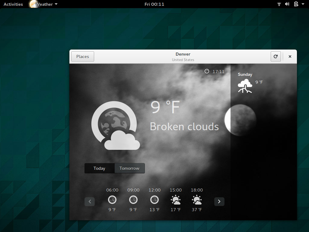 GNOME Shell & GNOME Weather 3.14--running on AOSC OS3 The background/wallpaper is available here